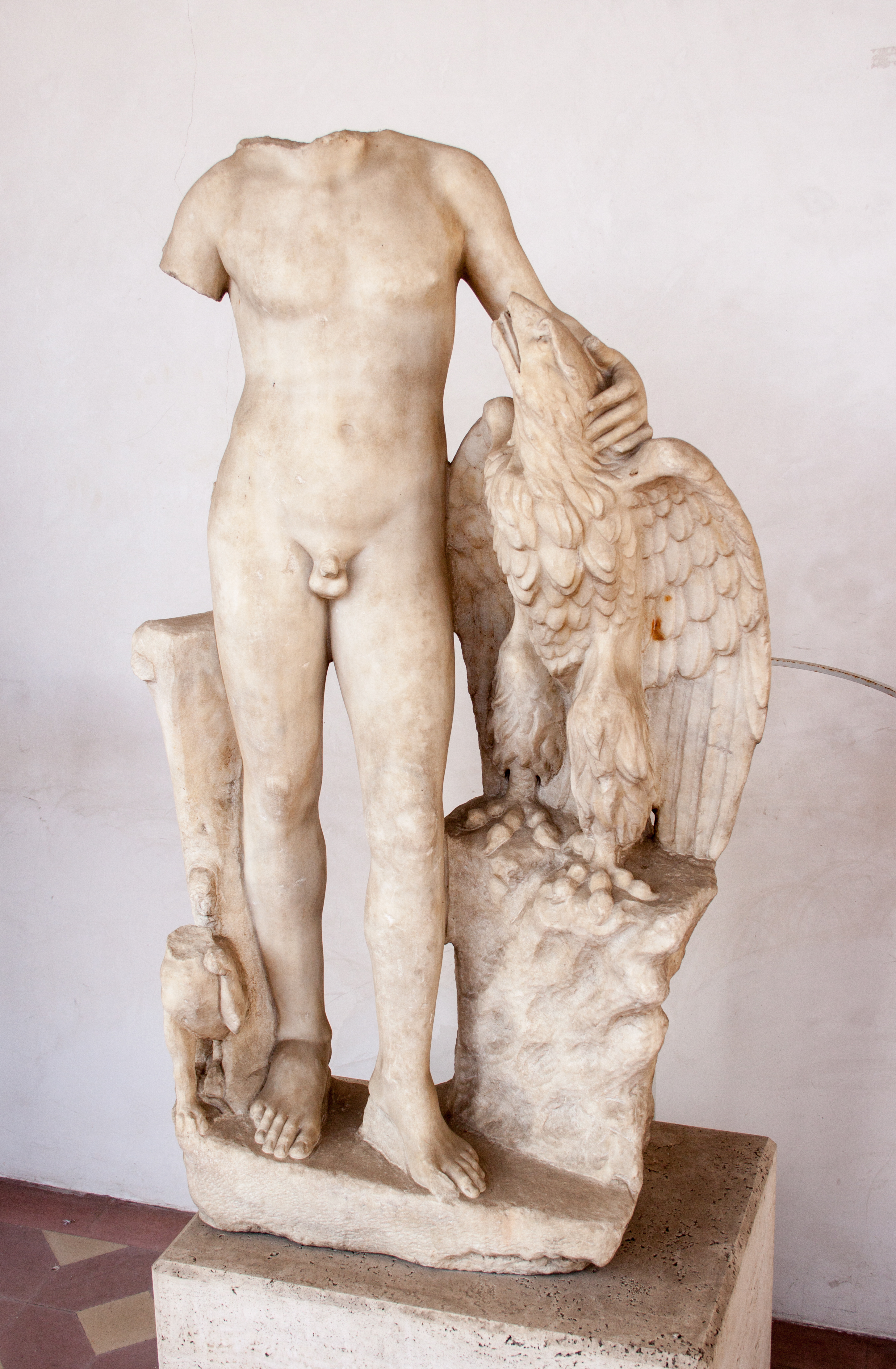 Ganymede with the eagle